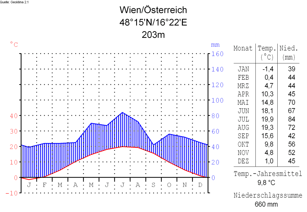 climate chart in the format by Walter and Lieth, metric, °Celsisus and millimeters, made with Geoklima 2.1